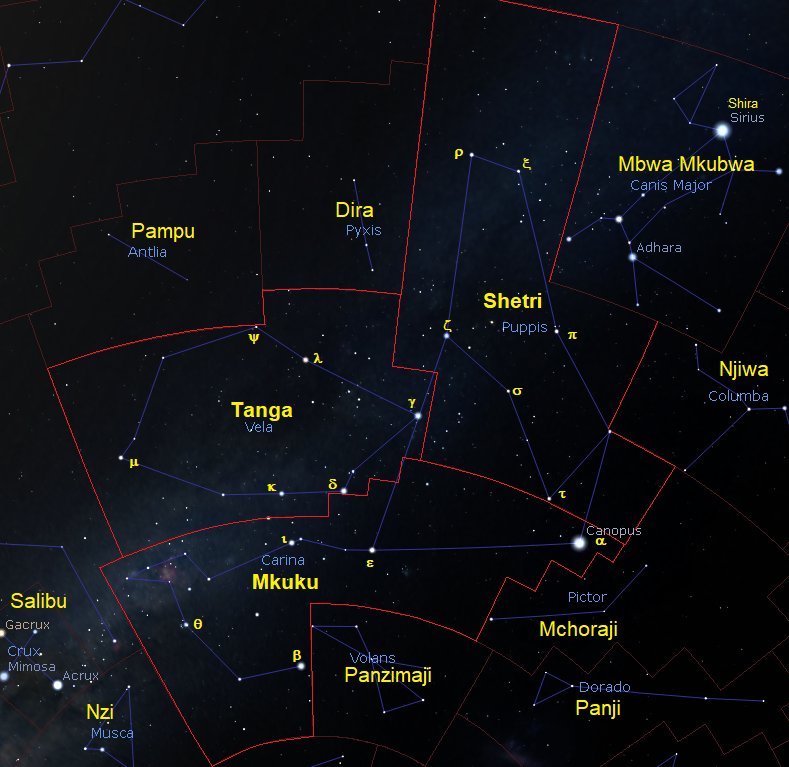 Constellations Navis Argo as seen from Tanzania, Swahili labelled Kiswahili: Kundinyota Argo Navis sasa Mkuku (Carina), Shetri (Puppis) na Tanga (Vela) jinsi zinavyoonekana kutoka Tanzania, majina kwa Kiswahili